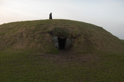 Hill of Tara, mound of hostages